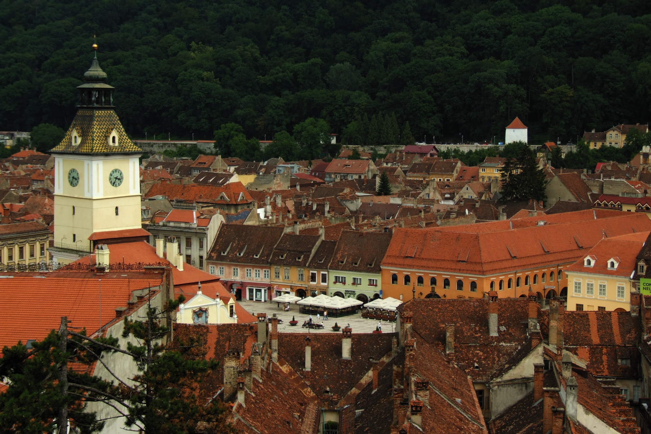 Braşov (Kronstadt, Brassó) - city center. View from White Tower